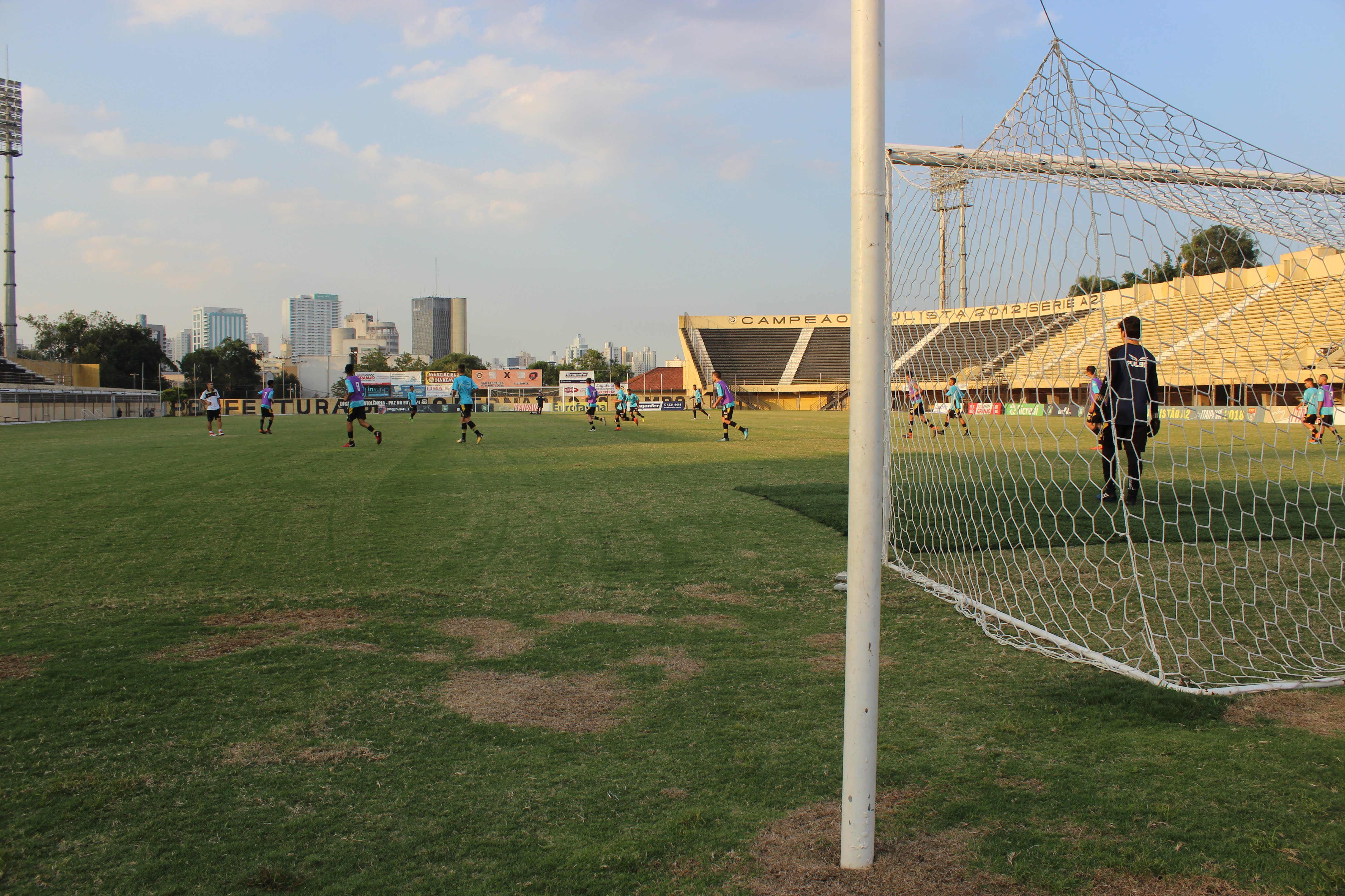 1º de Maio Stadium